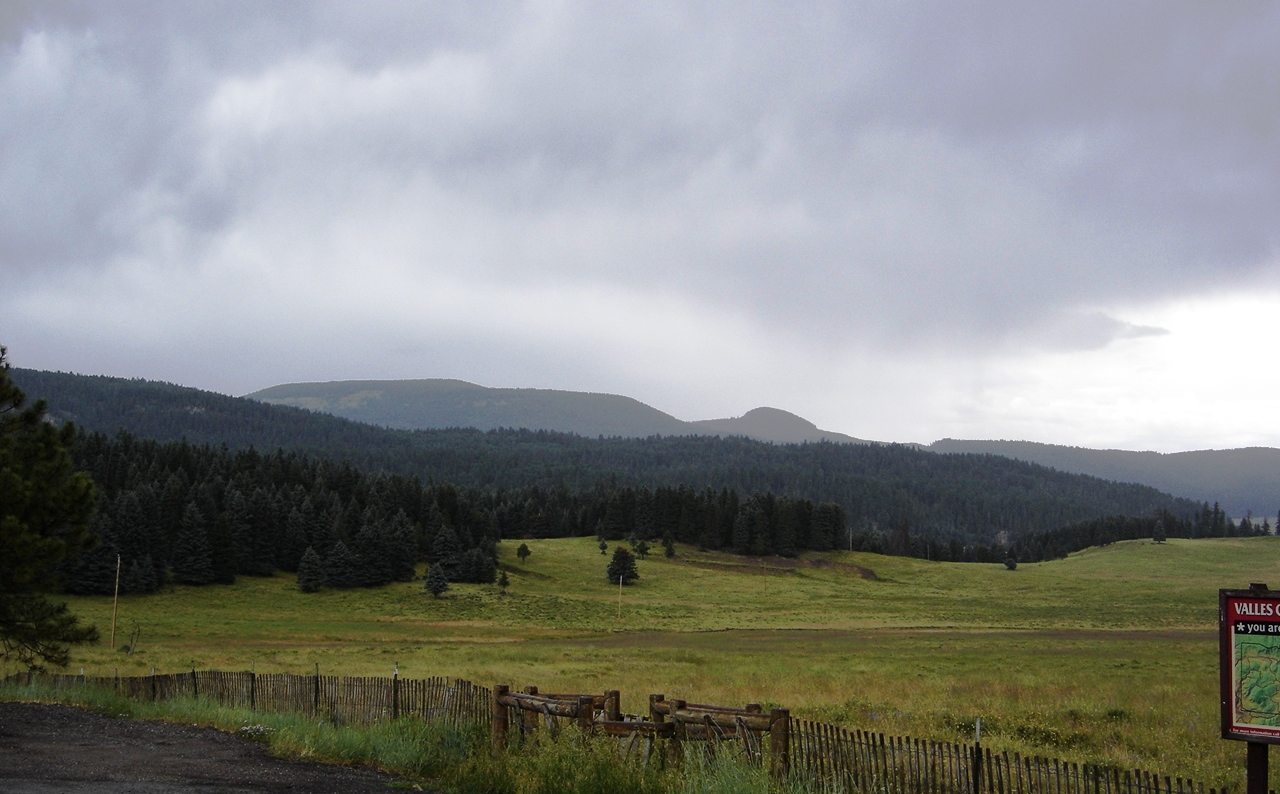 Santa Fe National Forest, northwest of Los Alamos, NM, along Hwy 4